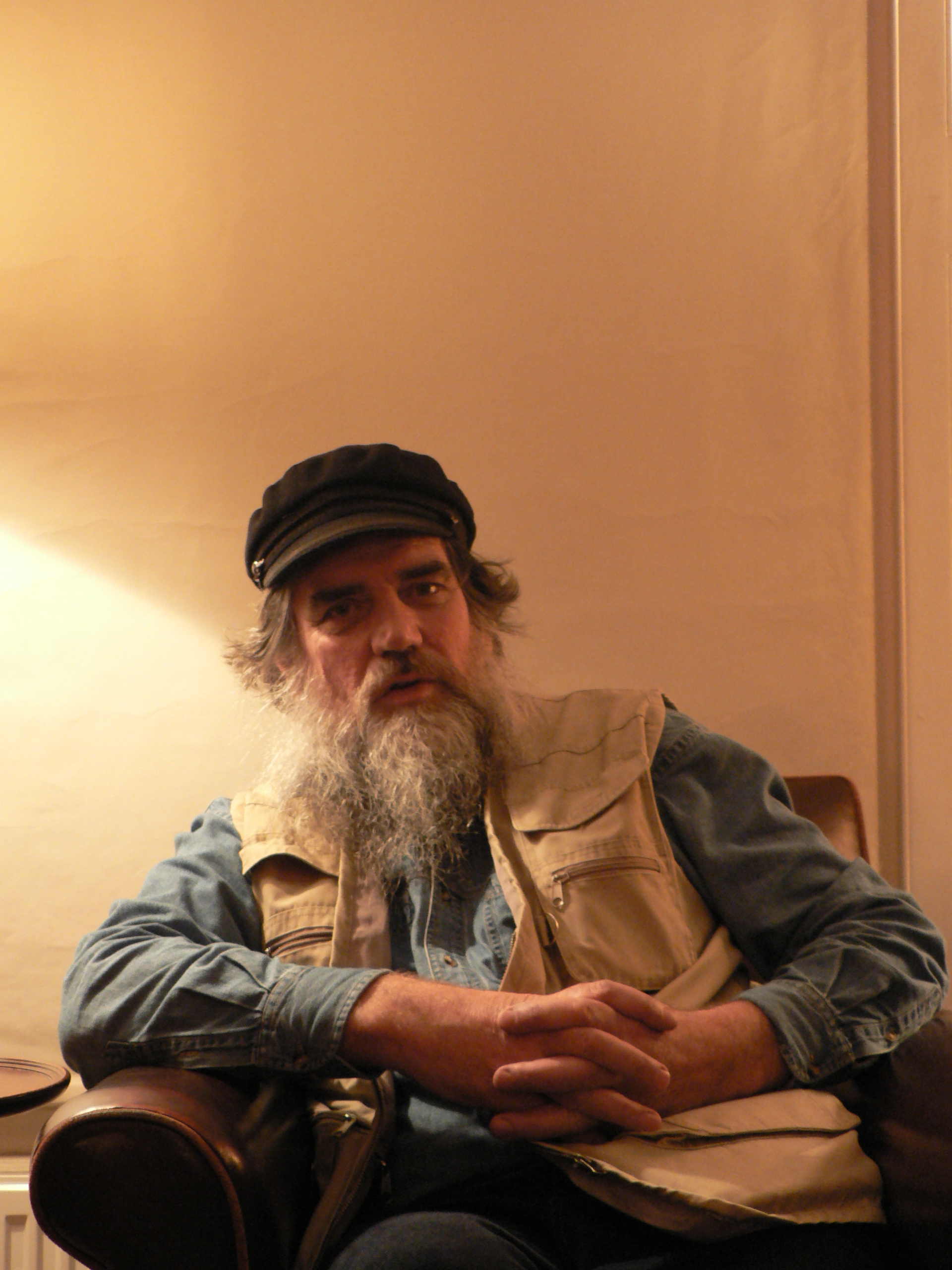 Bill Meyer, Portrait of Bill Meyer